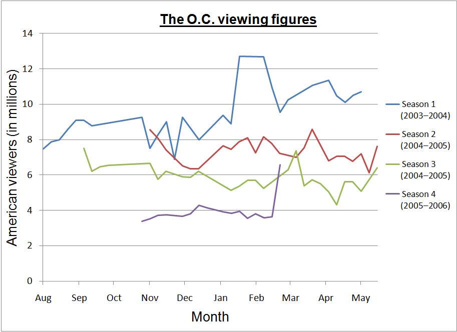 A line graph of viewing figures for The O.C. plotted against months. A different line is used for each season.